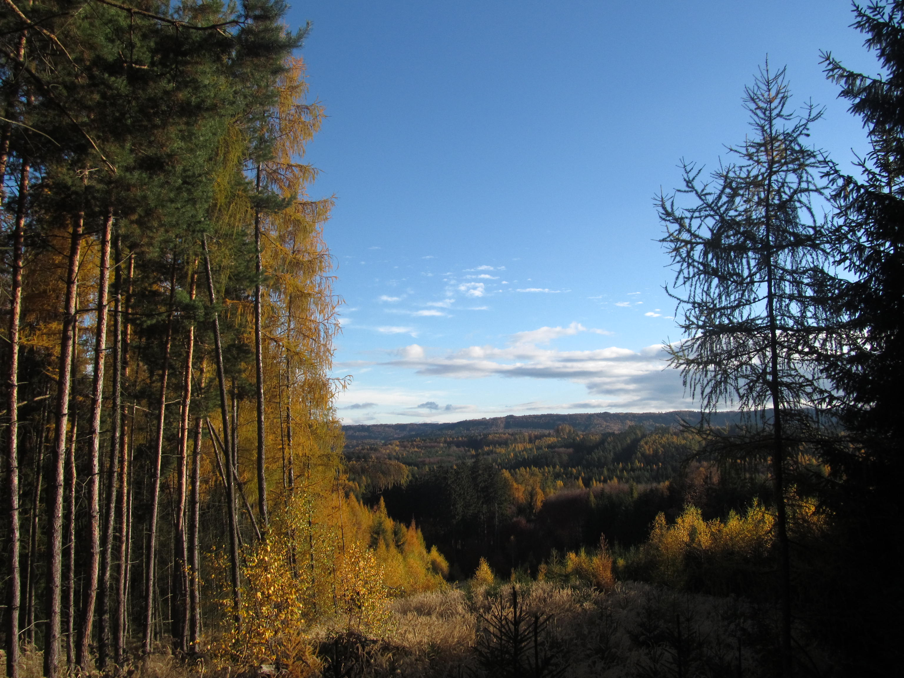 Natural monument Na Spáleništi